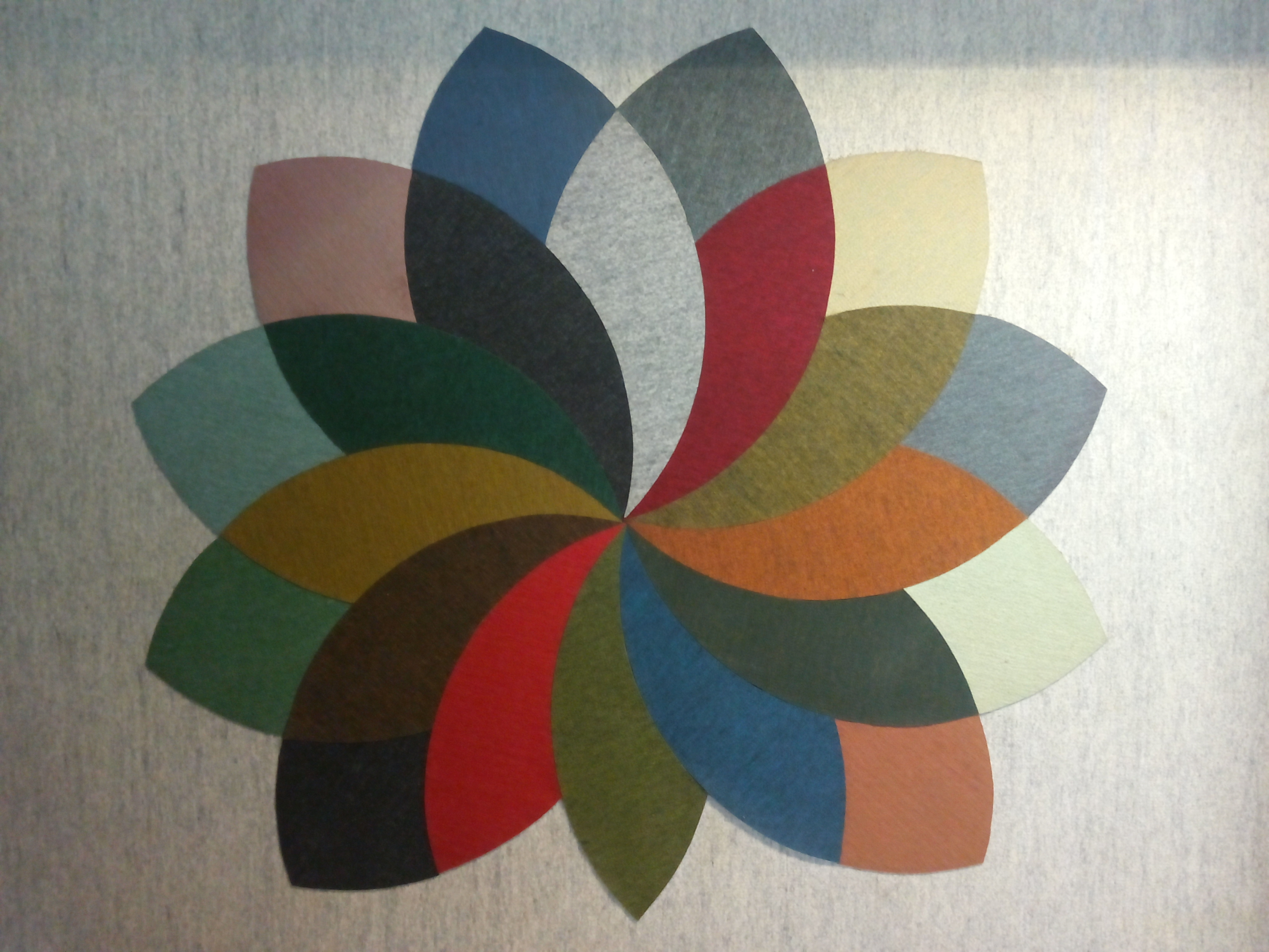 Carpet models